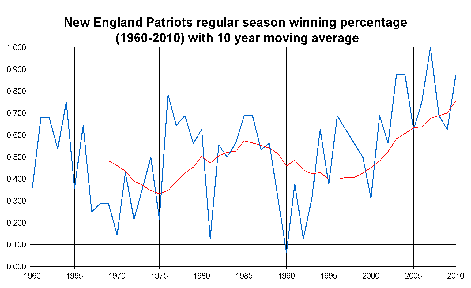 New England Patriots winning percentage updated with 2010 results. Completely created by me using Excel.